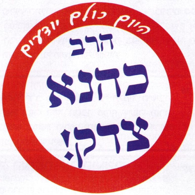 Hebrew says: "Hayom Kulam Yodim: HaRav Kahane Tzadak" which means: "Today Everybody Knows: Rabbi Kahane was right